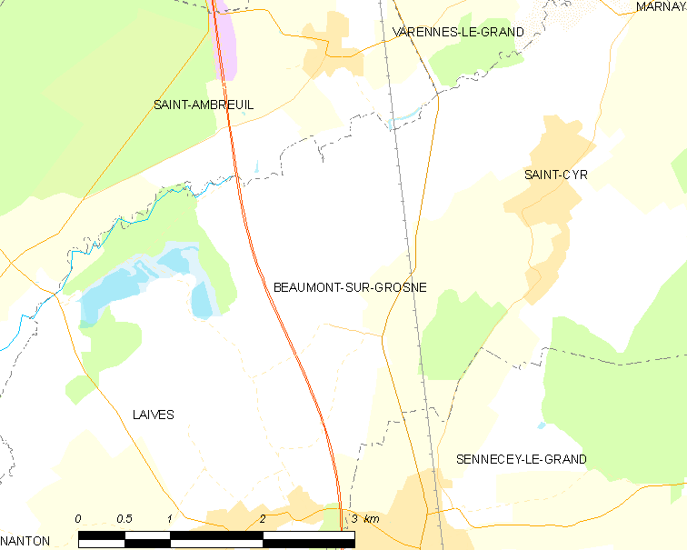 Map of French municipality